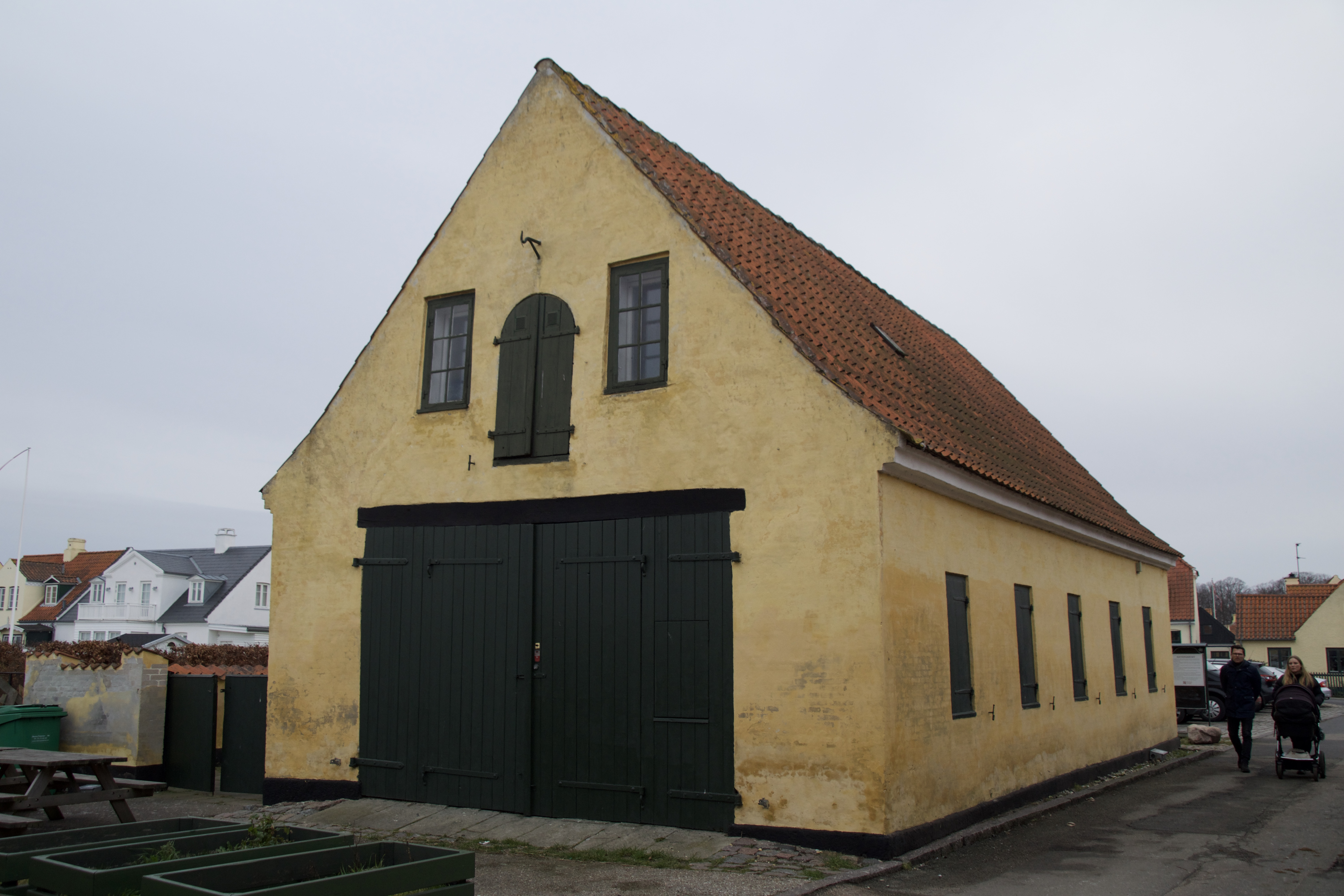 Havnepakhuset in Dragør taken in 2019